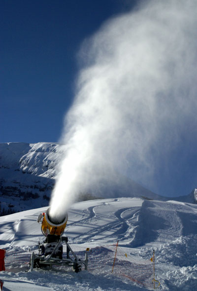 Snow cannon in Wildhaus in Switzerland